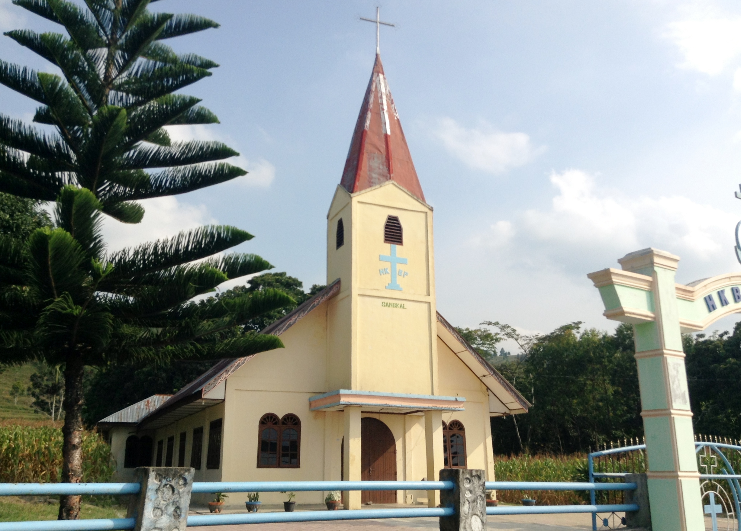 HKBP Church in Simanindo Sangkal, Simanindo, Samosir.